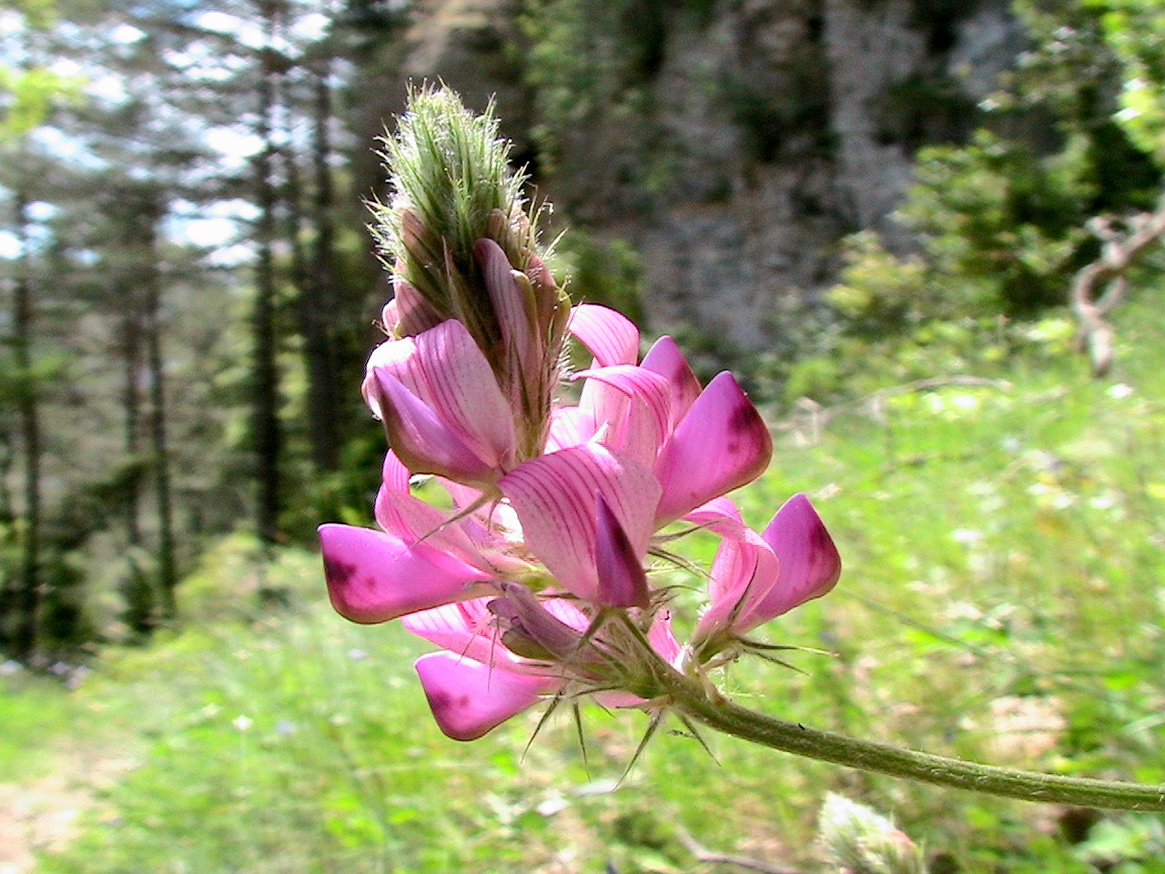 Onobrychis viciifolia. In Mola de Lord (Solsonès - Catalunya). To 1.070 m. altitude